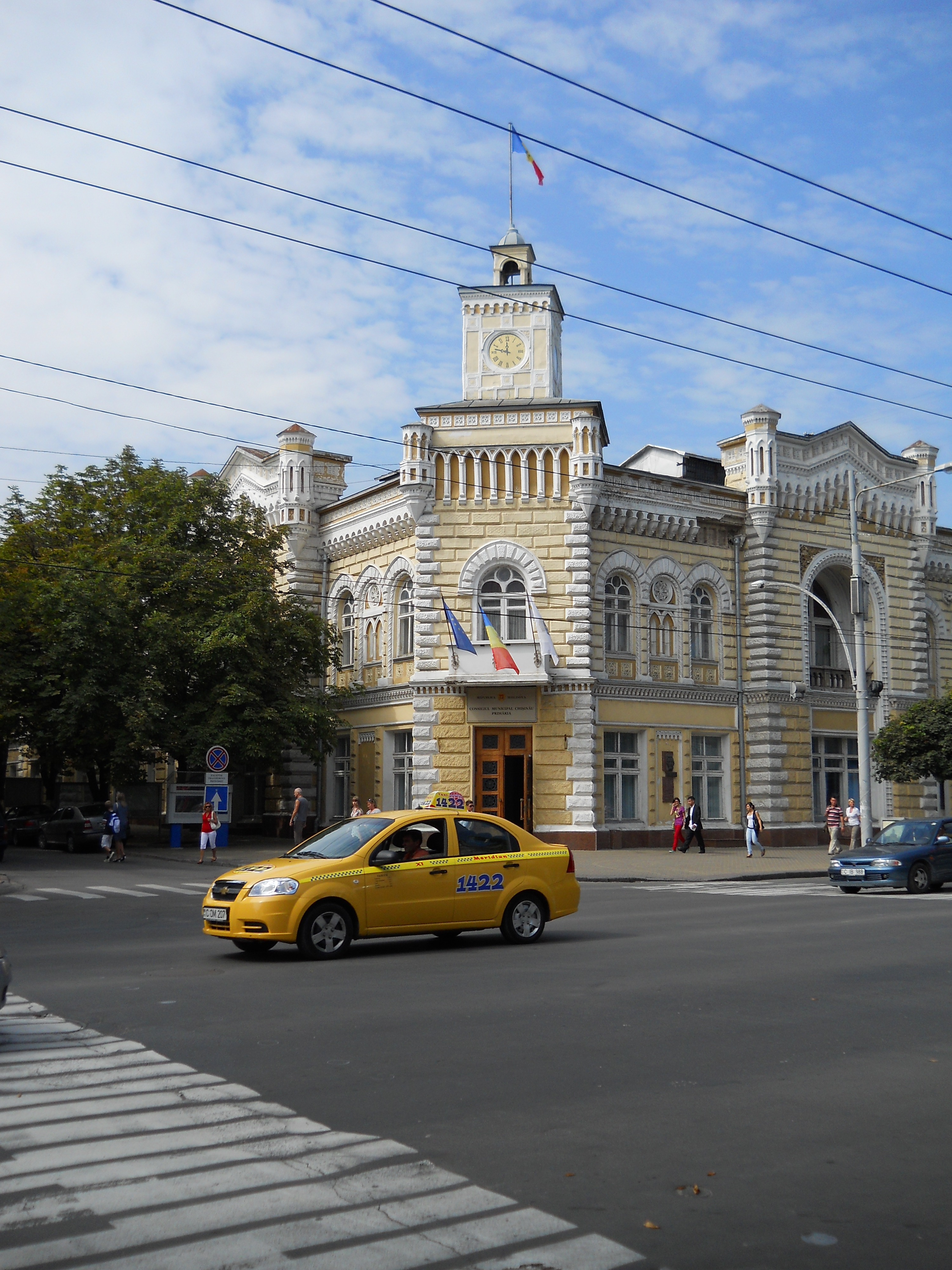 Taxi of Chisinau